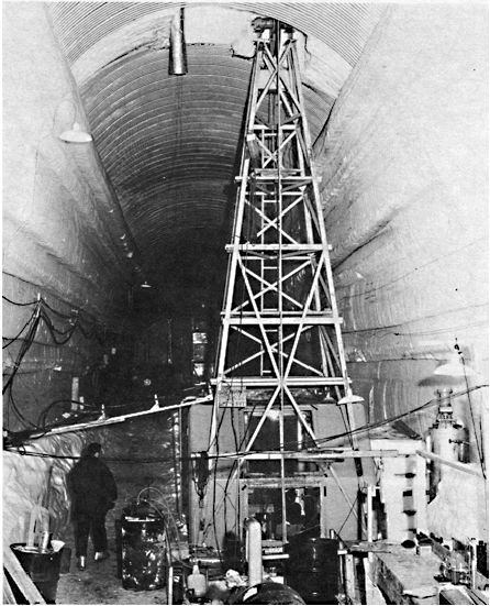 Thermal drill at Camp Century, near Thule, Greenland, used to drill through the Greenland ice cap.